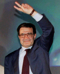 Romano Prodi in 1996